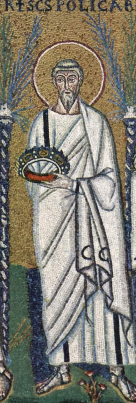 Basilica of Sant'Apollinare Nuovo in Ravenna, Italy: "Procession of the Holy Martyrs" - a detail: St. Polycarp. The work was completed within 526 AD by the so-called "Master of Sant'Apollinare".